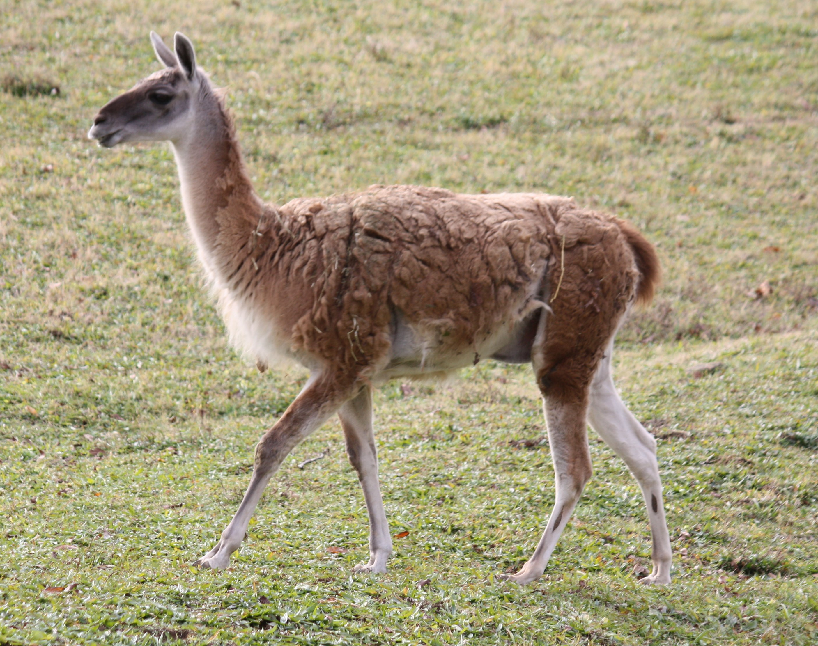 Lama guanicoe at the Louisville Zoo